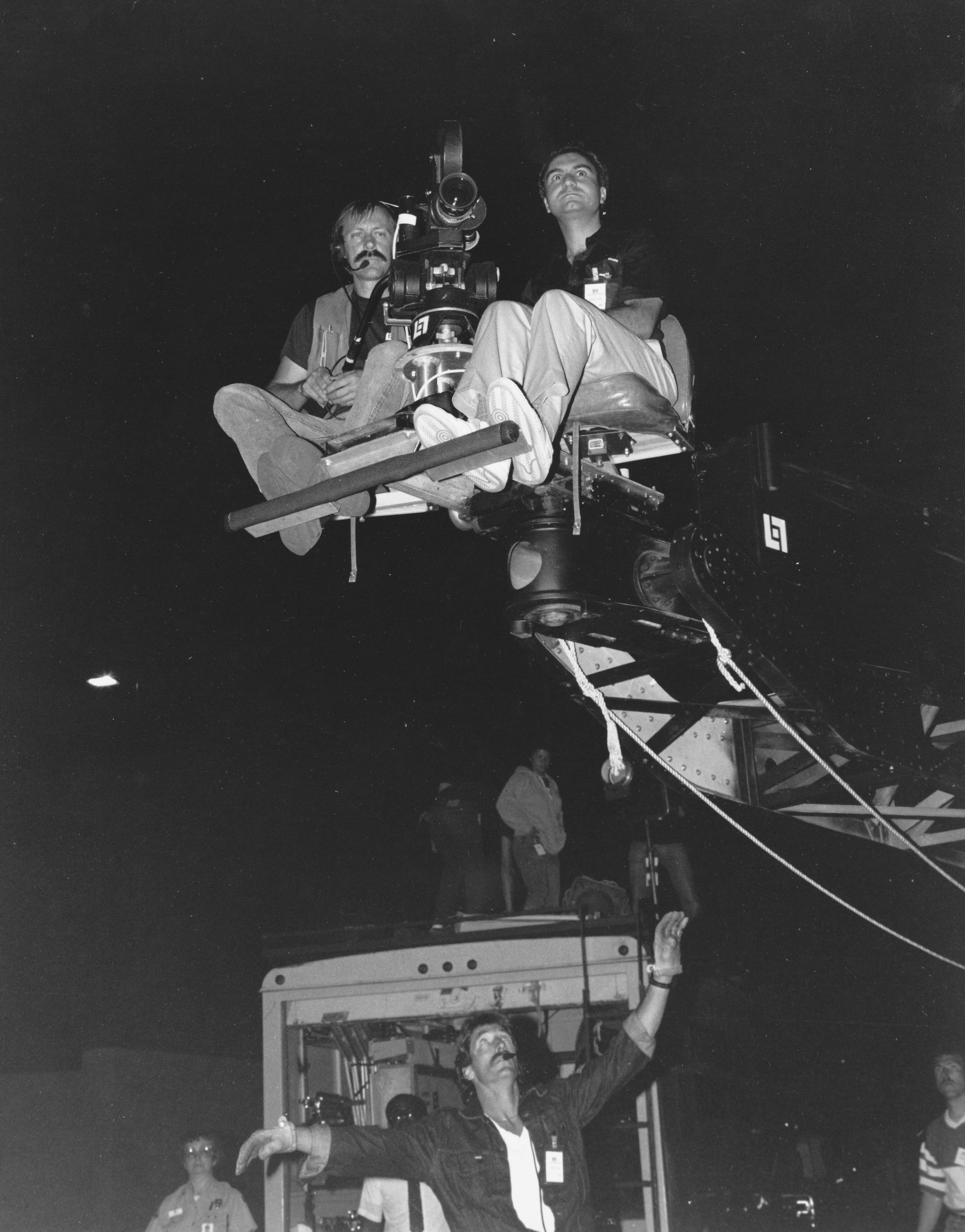 Constantine Dillon on film set of Happy Hour